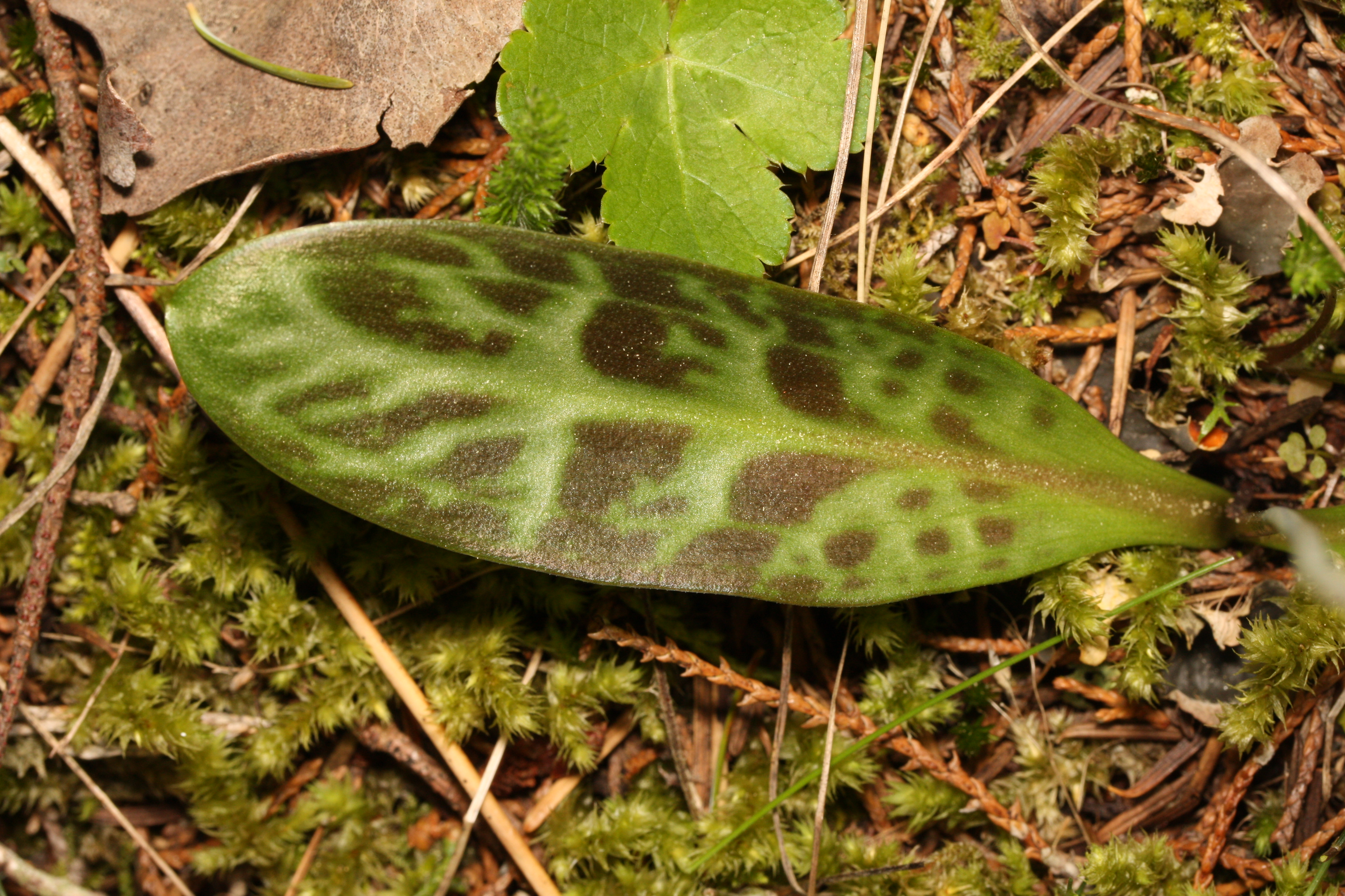 Giant White Fawn-lily, Deer's Tongue, Wild Easter Lily